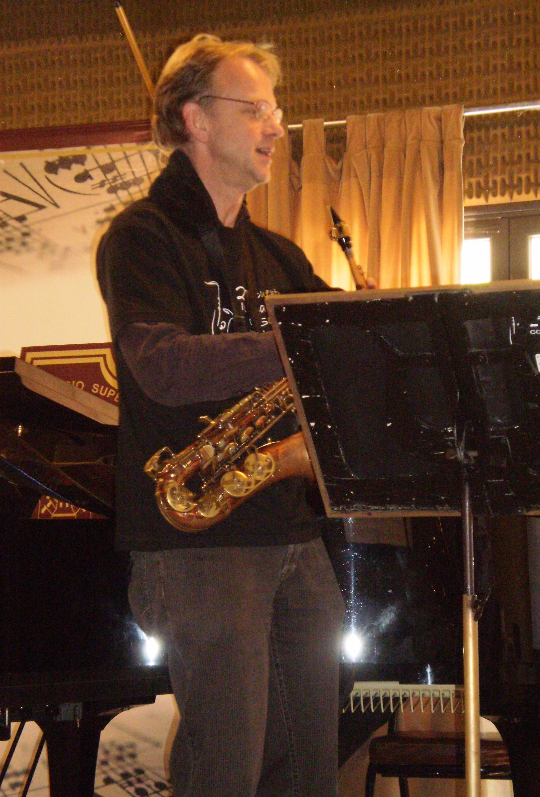 Arno Bornkamp during the Second Saxophone International Encounter 2010 that took place in the Felix T garzon Conservatory in Cordoba (Argentina)